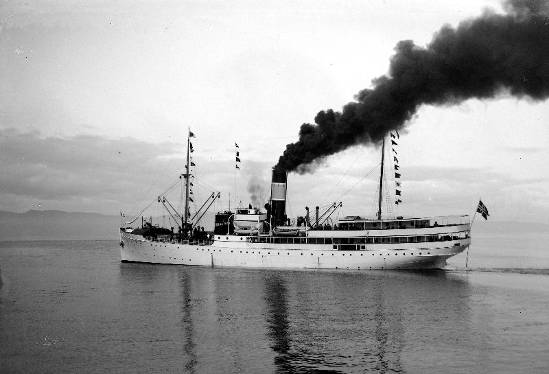 Norwegian coastal express ship (hurtigruten) DS Finmarken, built in 1912.